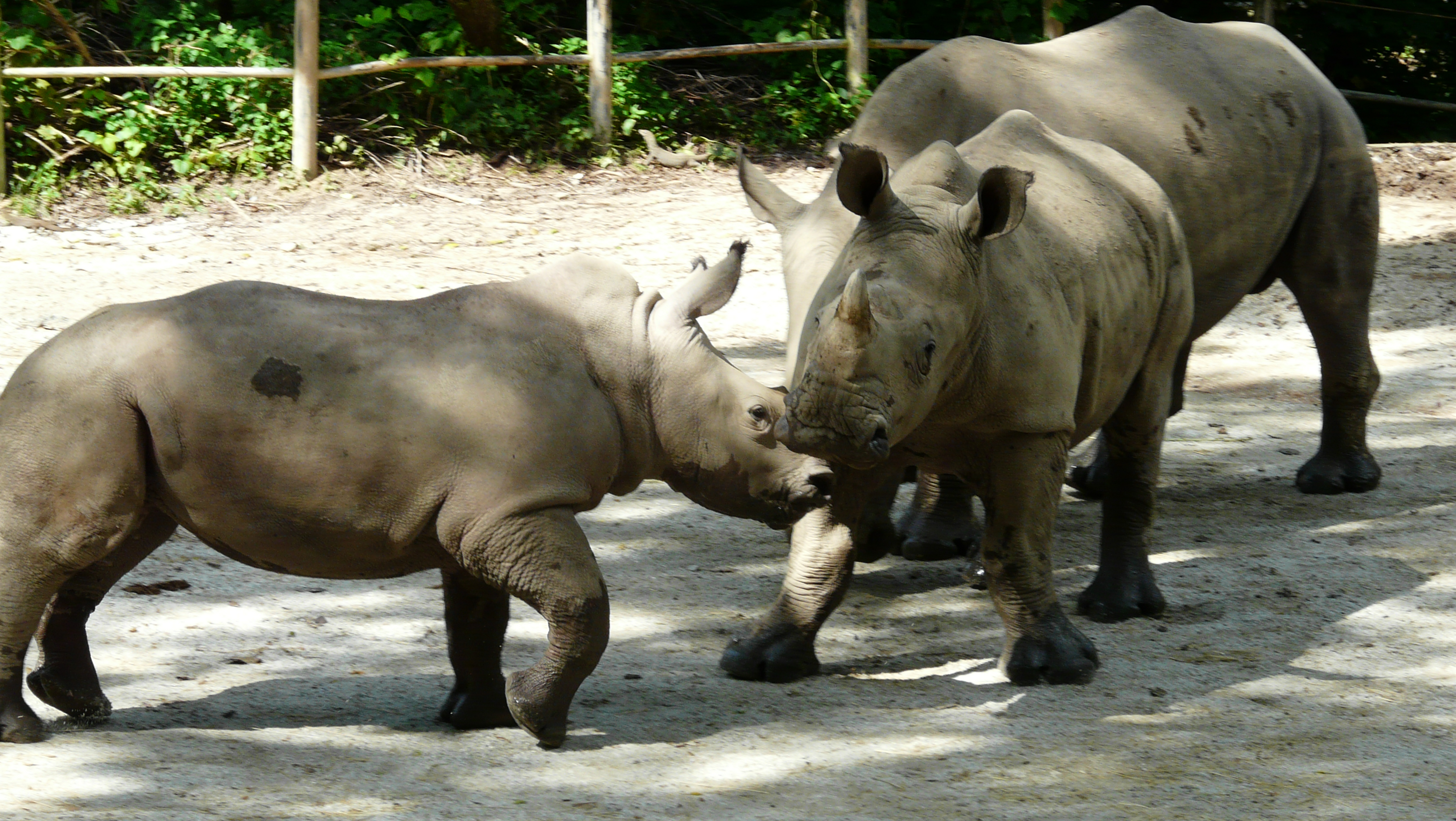 White rhino, Singapore Zoo